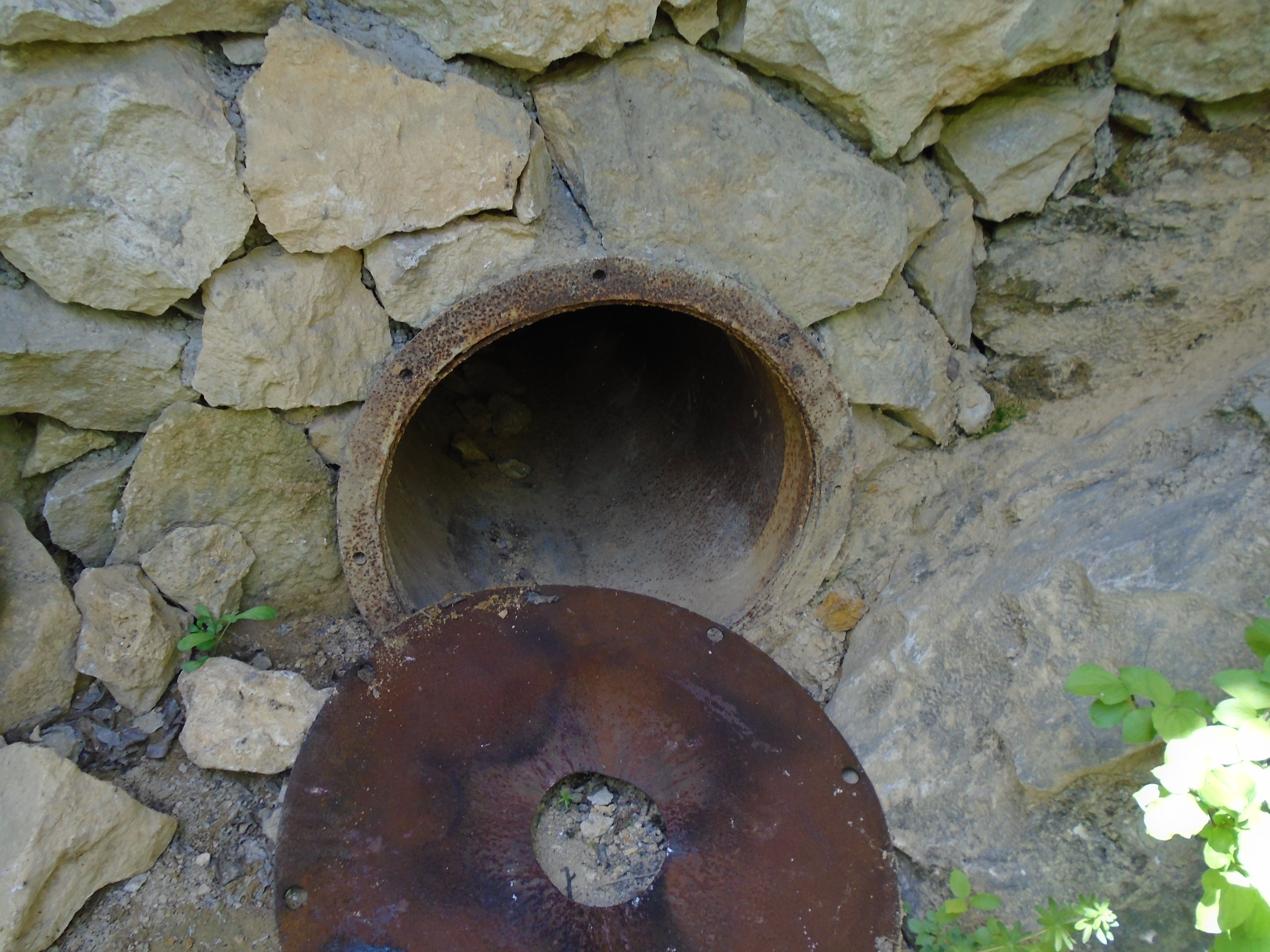 Entrance of Keleti quarry No 8 Cave.